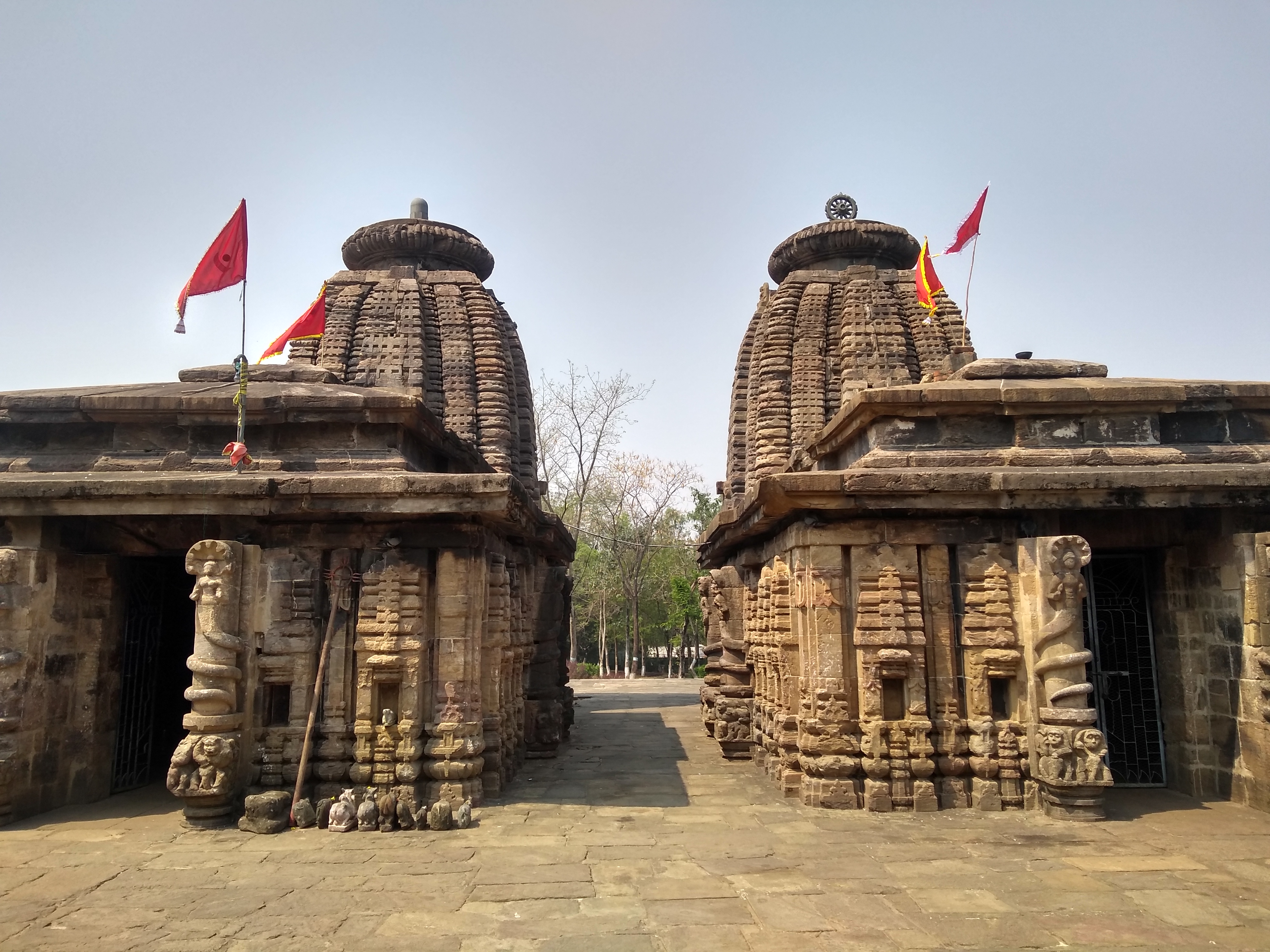 Temple